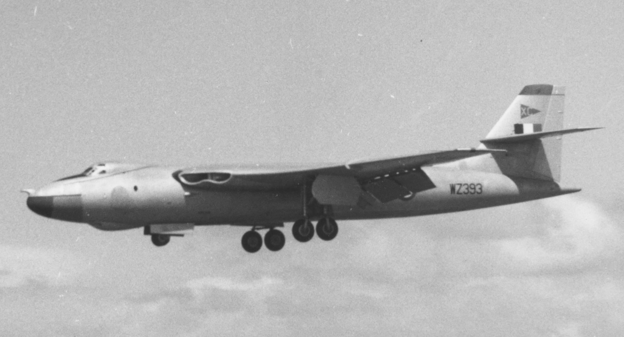 Vickers Valiant B.1 of 90 Squadron displaying at Blackpool Squires Gate airport